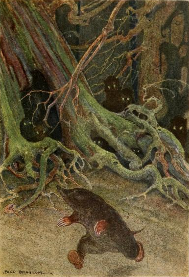 Wind in the Willows